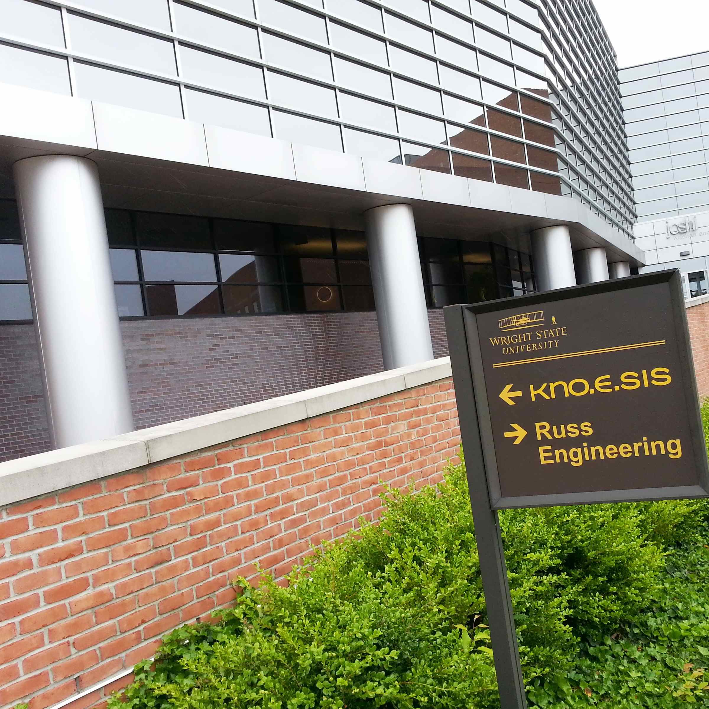 Way to Kno.e.sis